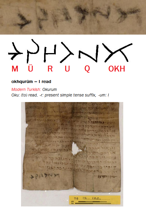 The Kievian Letter is an early 10th century (or possibly 11th century) letter written by a Khazarian Jewish community in Kiev. The letter, a Hebrew-language recommendation written on behalf of one member of their community, was part of an enormous collection brought to Cambridge by Solomon Schechter from the Cairo Geniza. It was discovered in 1962 during a survey of the Geniza documents by Norman Golb of the University of Chicago. The letter is dated by most scholars to around 930 CE. Some think (on the basis of the "pleading" nature of the text, mentioned below) that the letter dates from a time frame when Khazars were no longer a dominant force in the politics of the city.